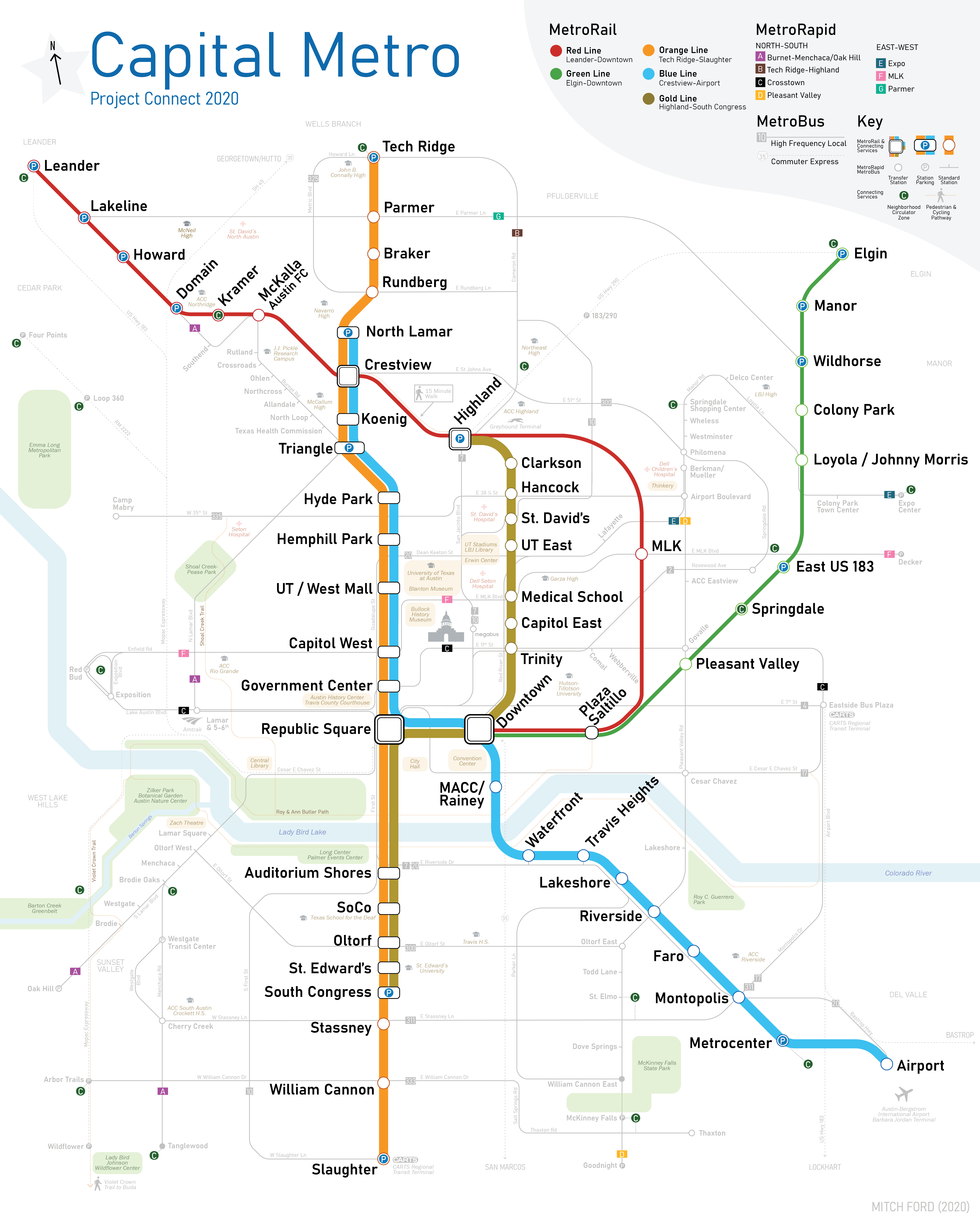 Transit map showing the Austin, Texas region with the proposed light rail and bus lines described in Capital Metro's Project Connect (2020).